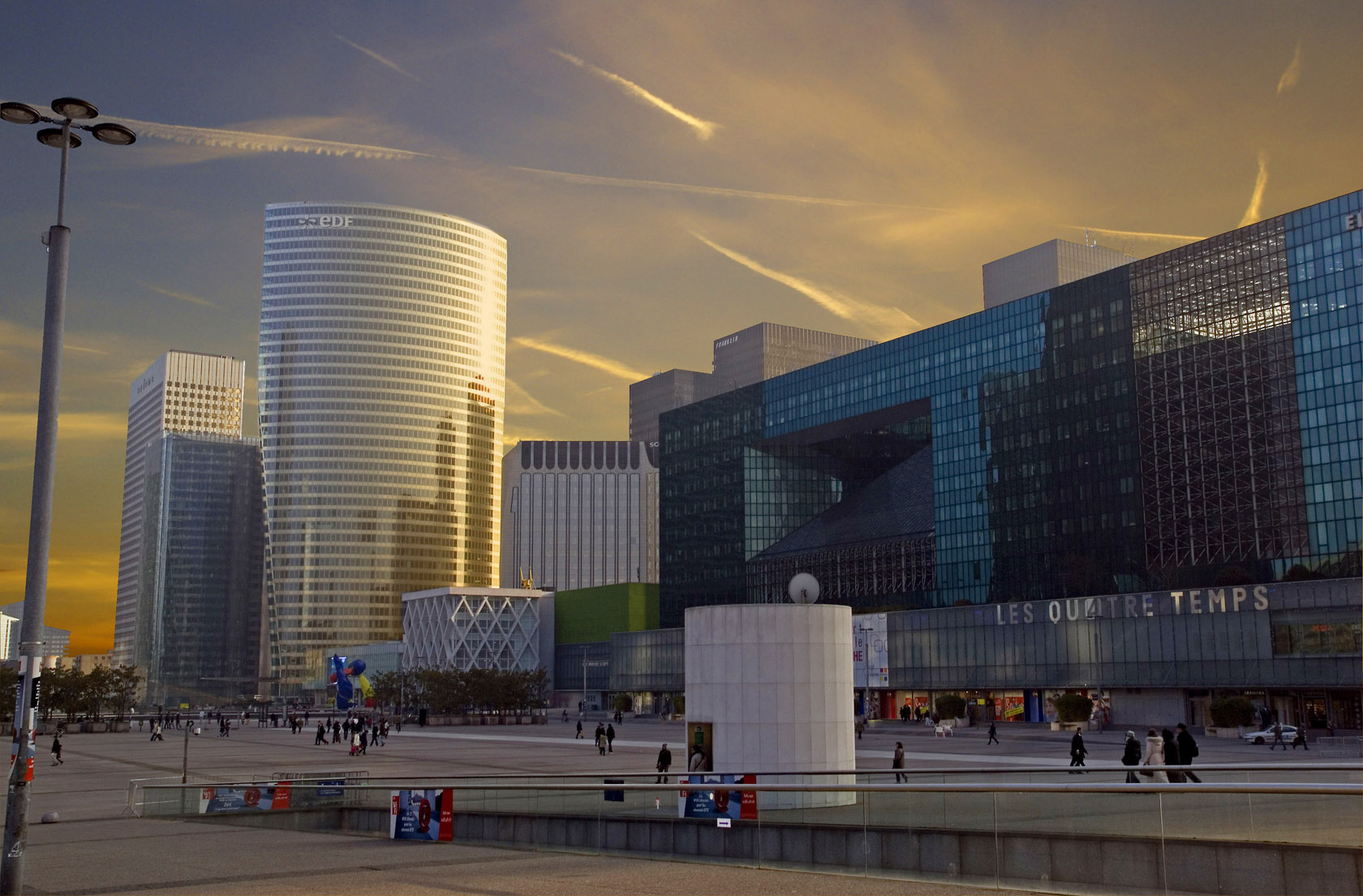 La Defense, Paris: the Quatre Temps shopping centre on a winter's afternoon